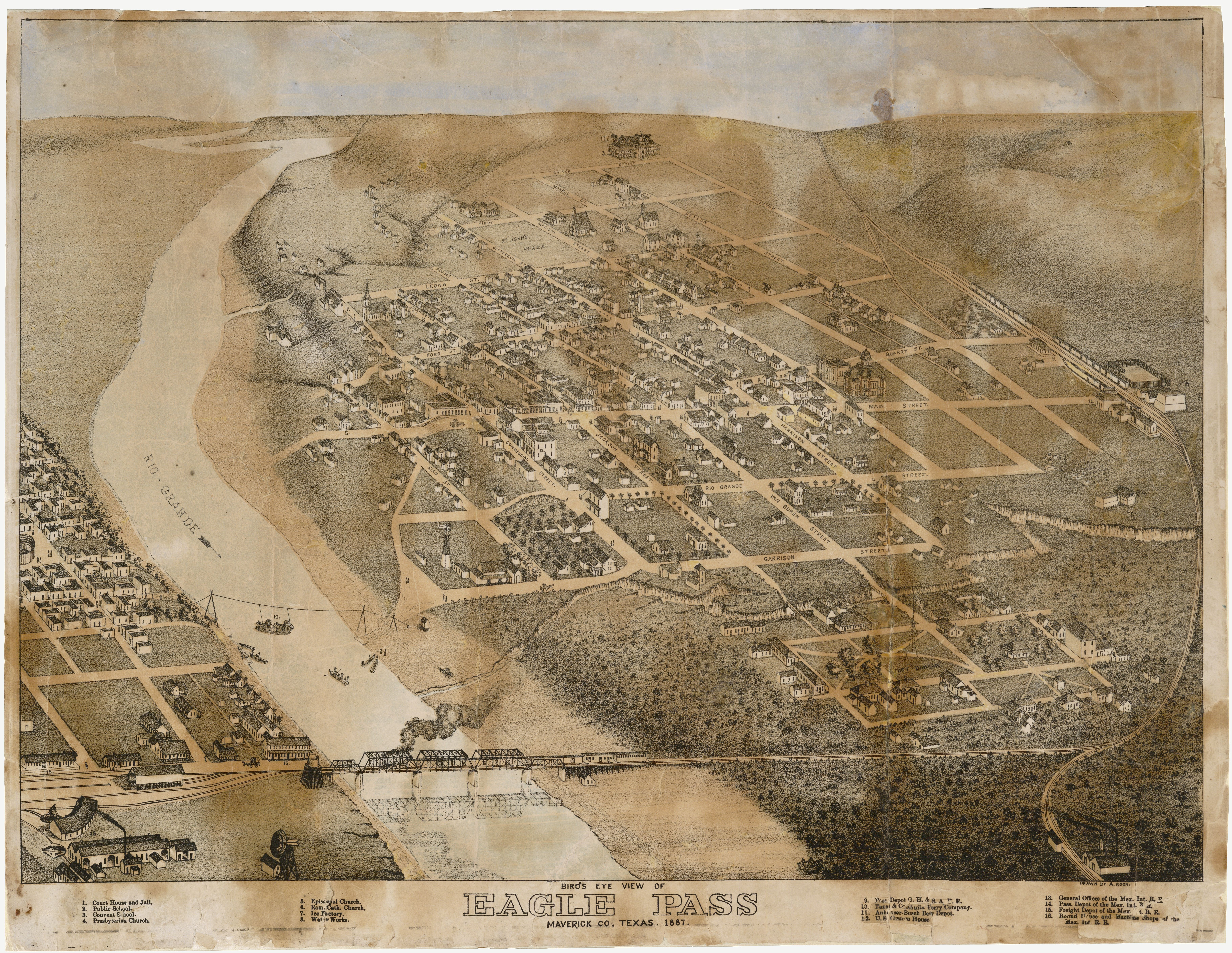 Eagle Pass, Texas in 1887. Bird's Eye View of Eagle Pass Maverick Co, Texas. 1887, 1887. Lithograph (hand-colored), 16 x 22 in., Lithographer unknown. Amon Carter Museum, Fort Worth. Gift of Mr. Charles Downing.